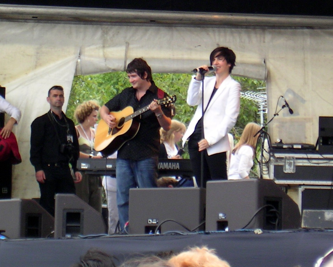 Texas